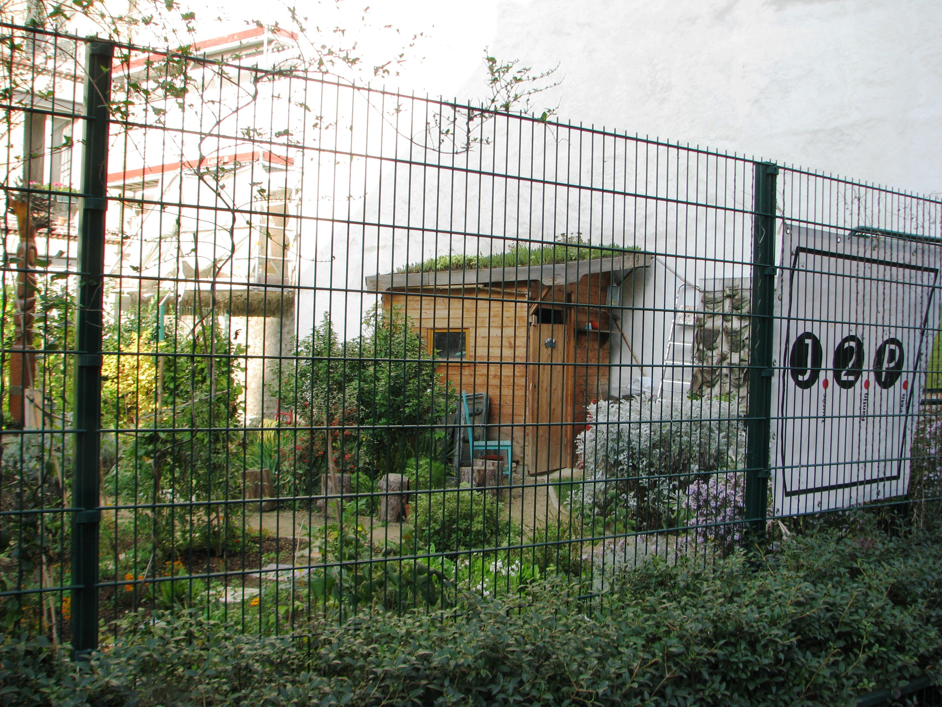 Shared garden in the rue Petit (19th district), Paris, France